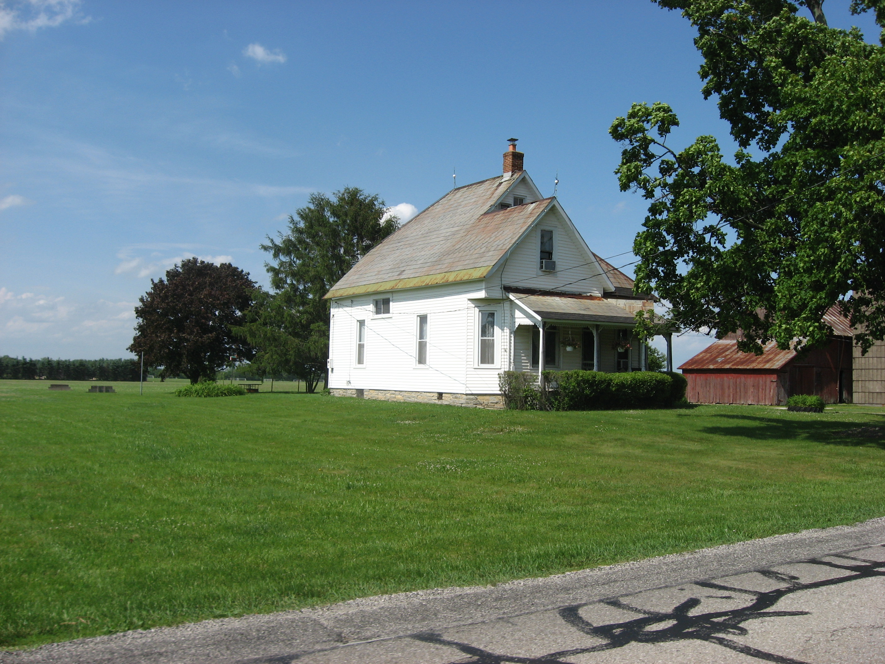 Front and western side of the Carl H. Shier House, located at 7026 Shier-Rings Road near Amlin in Washington Township, Franklin County, Ohio, United States. Built in 1900, it is listed on the National Register of Historic Places.